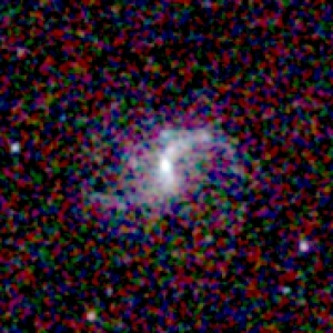 Galaxy NGC 145